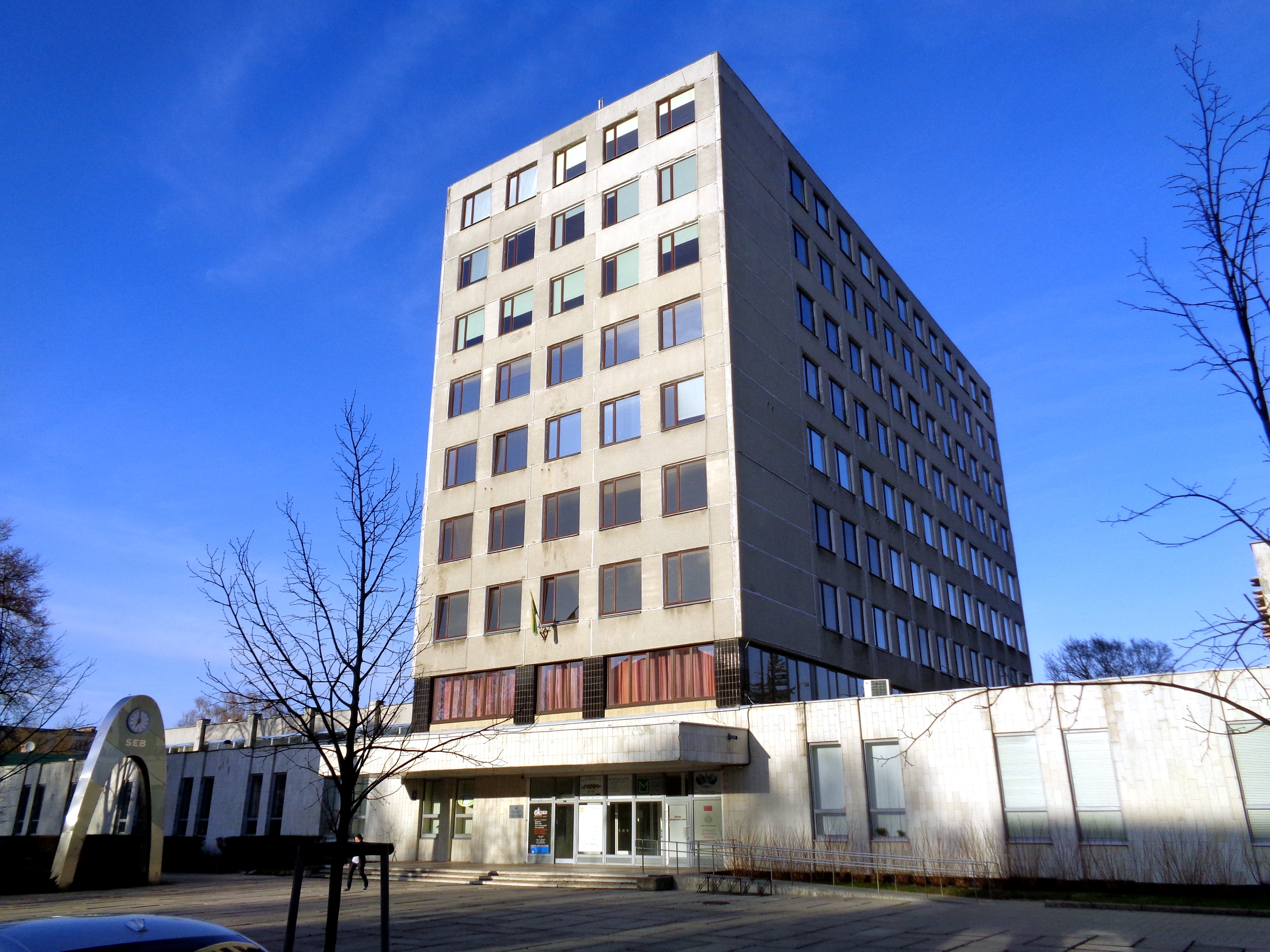 Faculty of Environment and Civil Engineering, Latvia University of Life Sciences and Technologies